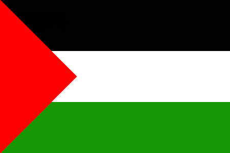 Flag of the Arab Socialist Ba'ath Party